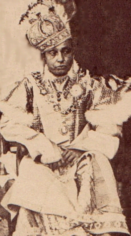 Sikandar Begum, a 19th-century nawab of Bhopal, India